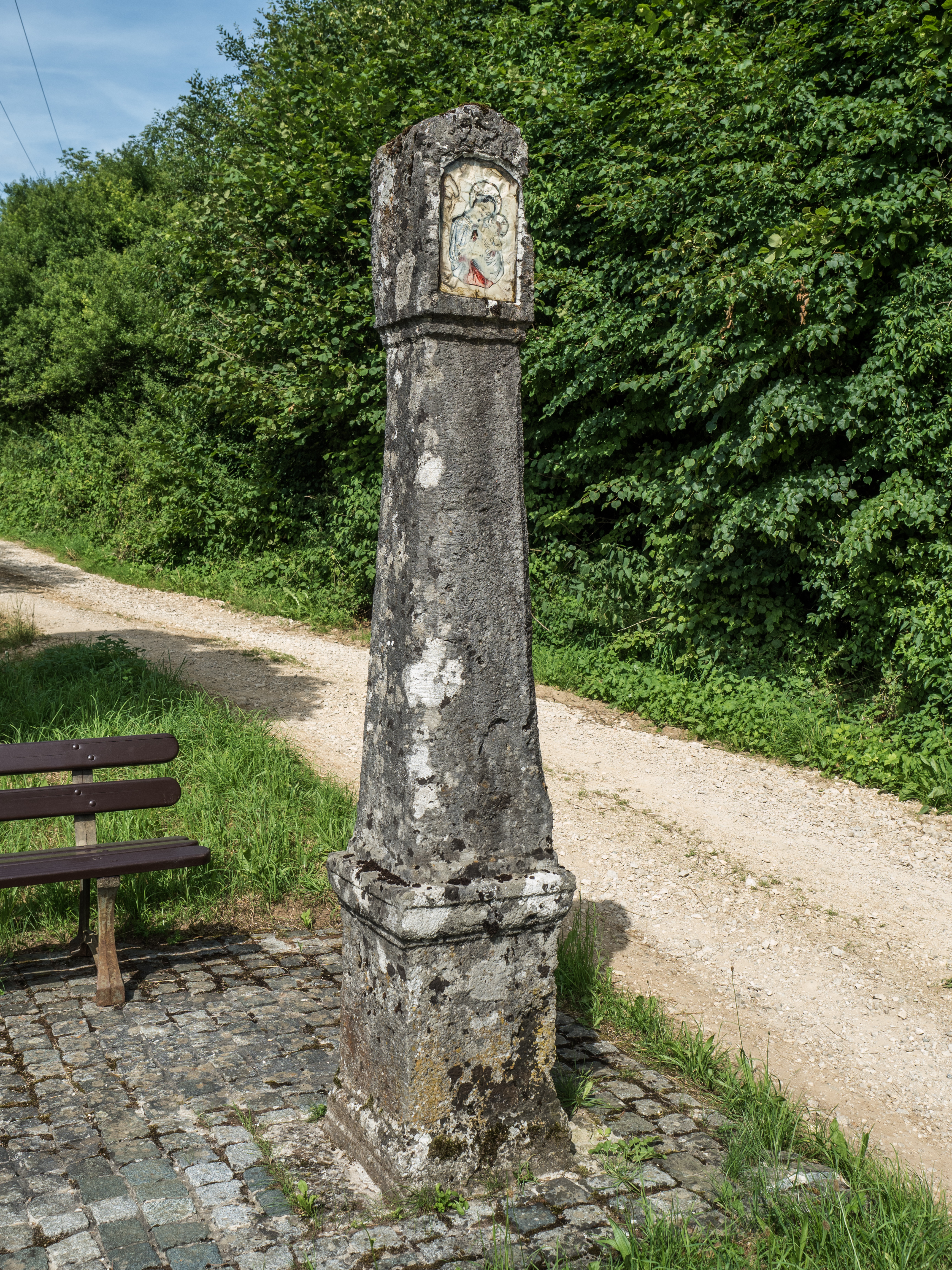 Marter at Oberailsfeld 1749th